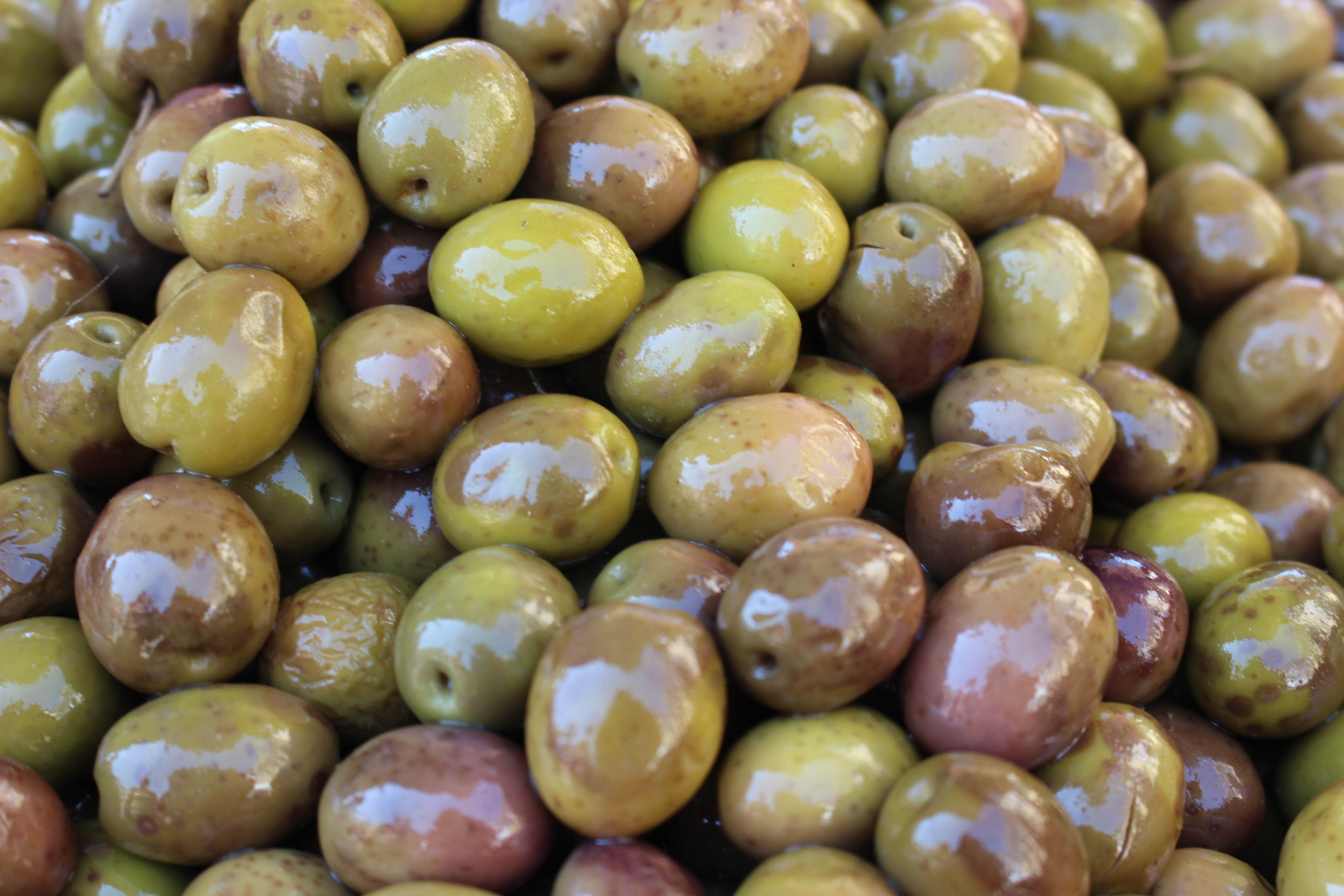 Olive (Olea europaea) fruits near Athens, Greece.